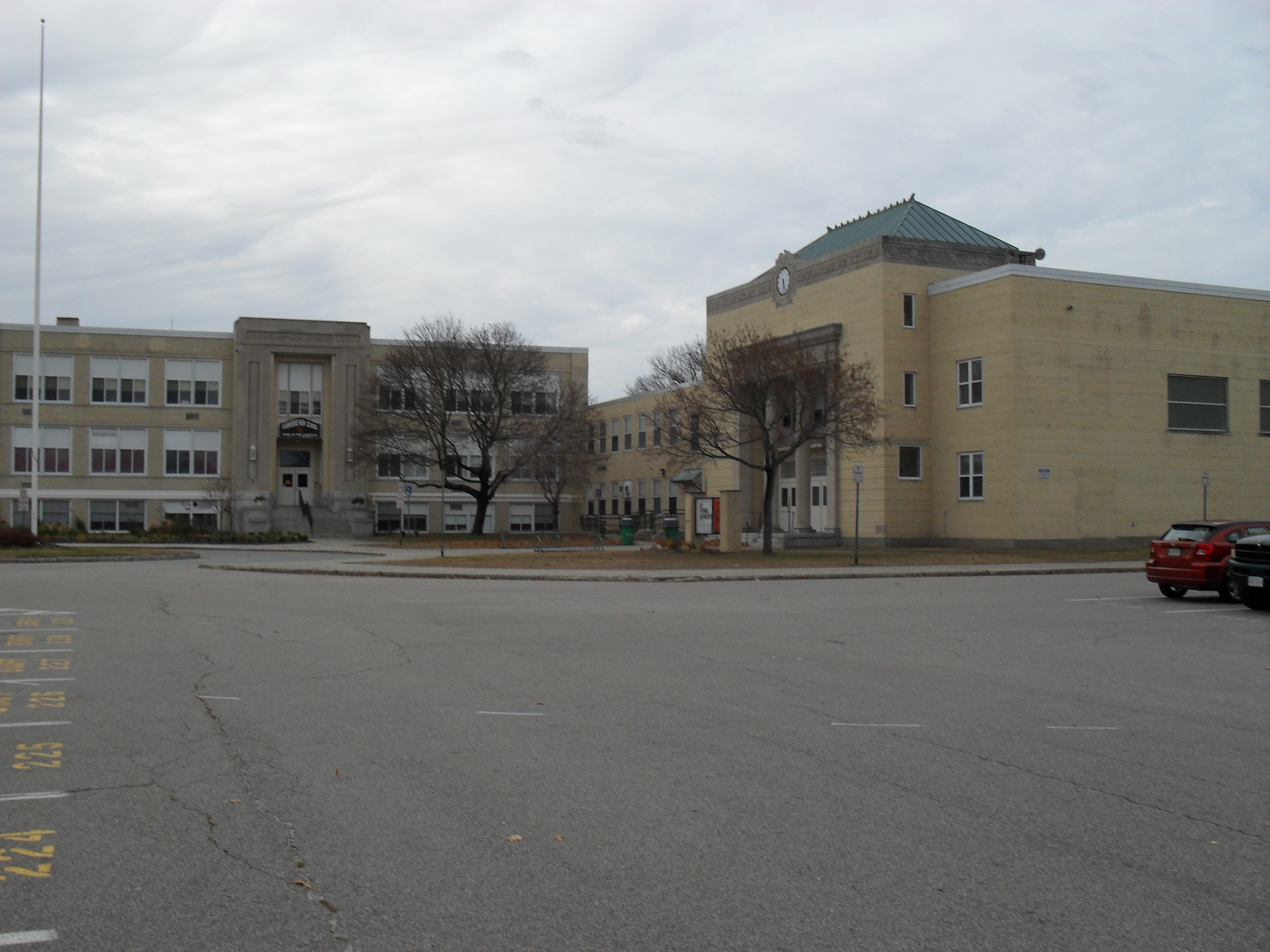 Uxbridge High School, Uxbridge, MA, built circa 1936, photo taken 11-11-09